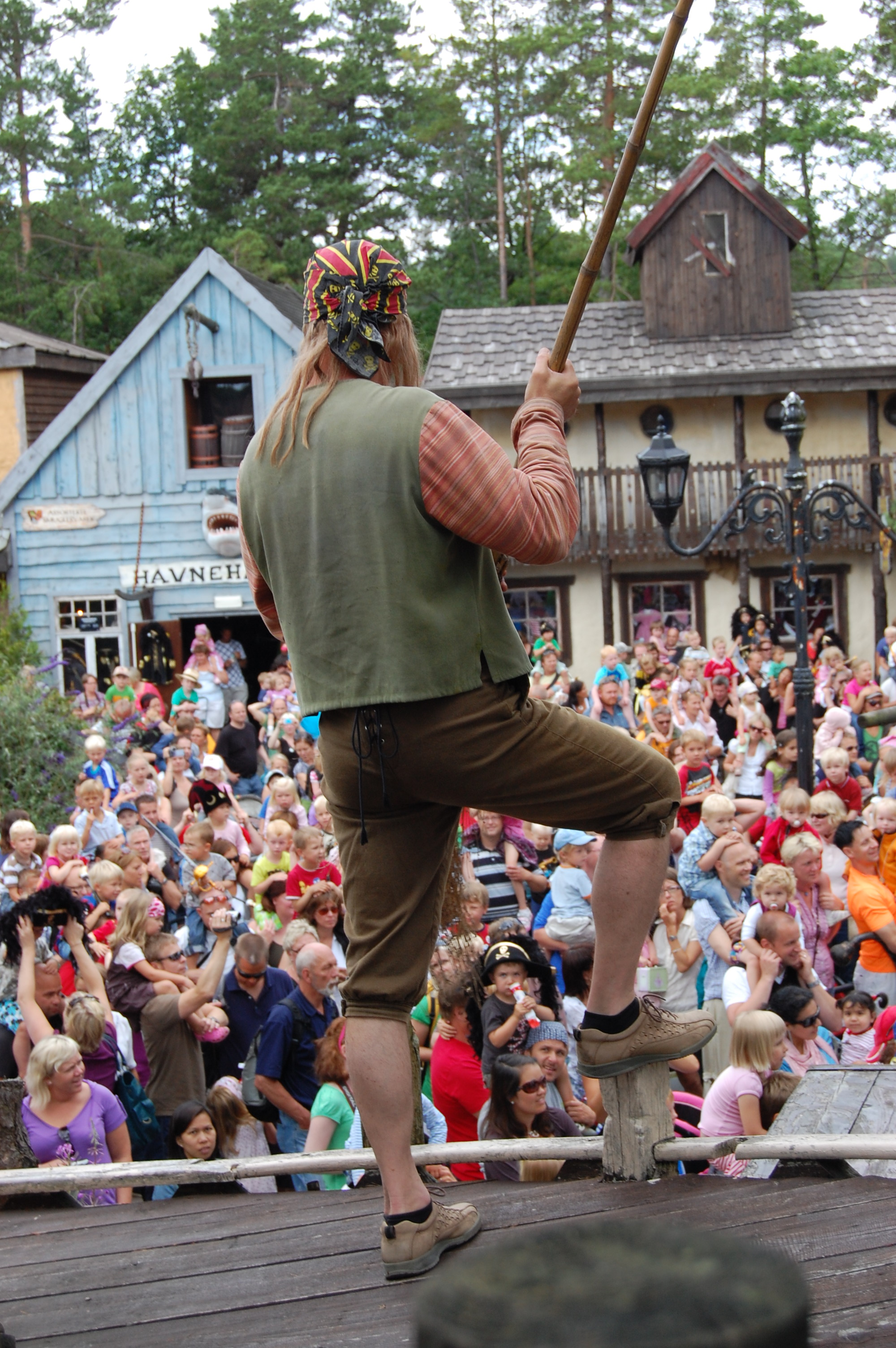 A person dressed up as the role figure Benjamin entertaining in a show in Captain Sabertooth's World.